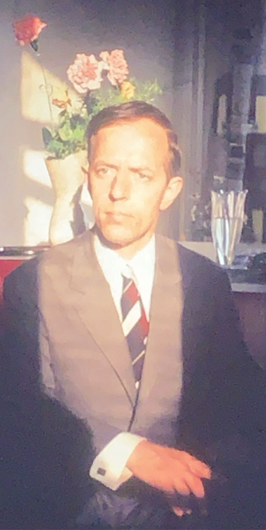 Andrej Briski